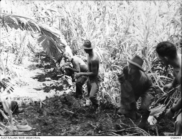 Finschhafen, New Guinea, 1943-10-02. The rough terrain in the area necessitated these human supply chains to get ammunition and food to the forward troops.